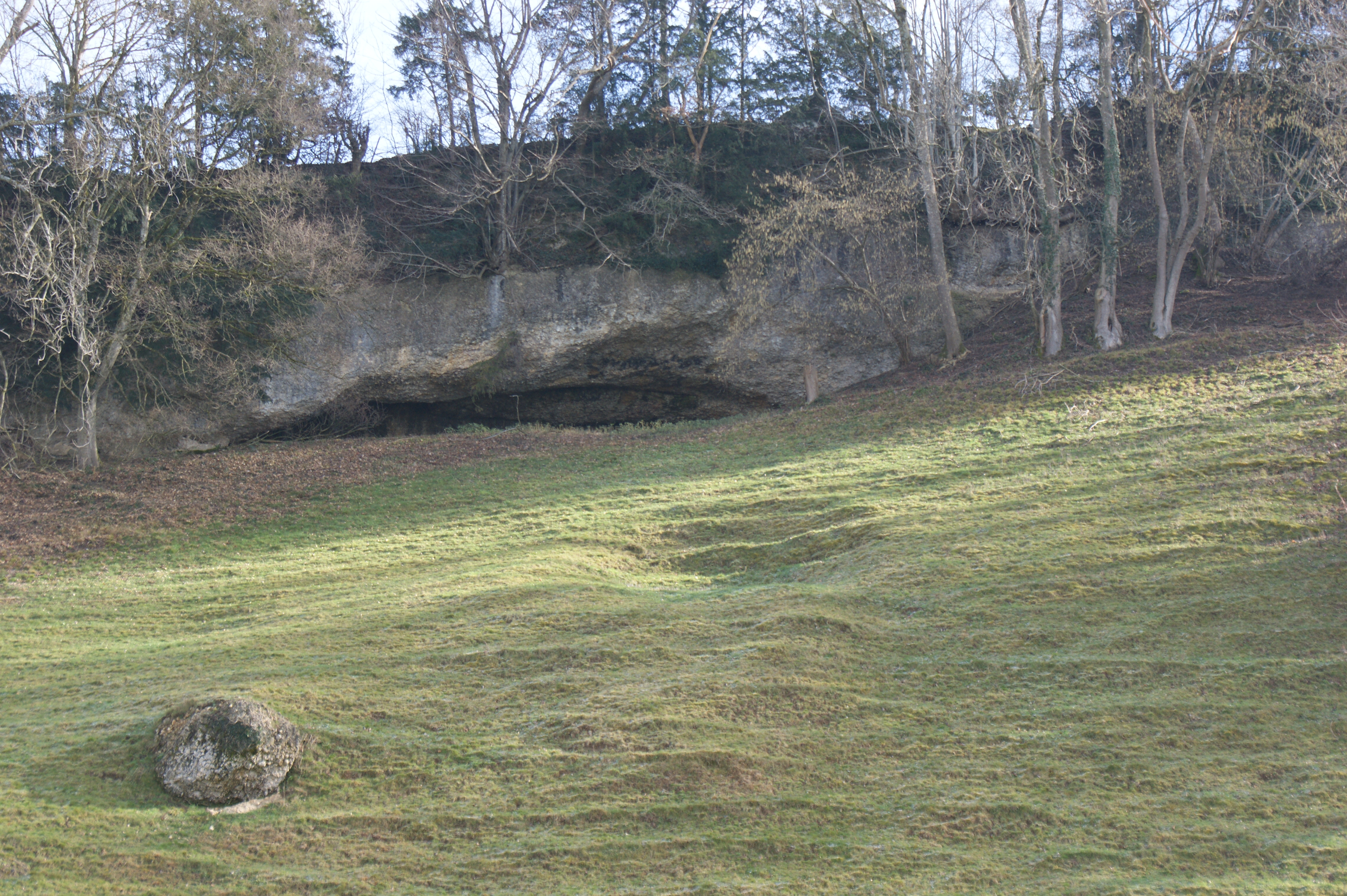 The "Wellensteinhoehle" is part of the so-called "Langer Stein" (meaning: "Long Stone"), in which there are several holes and Rock shelter (Abri), which were created by washing out marl from the Nagelfluh rock. A prehistoric settlement is suspected here.